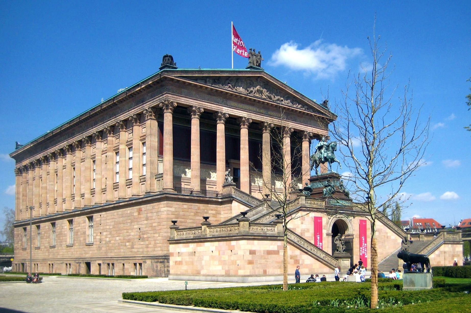 The Old National Gallery on Museum Island in Berlin-Mitte.